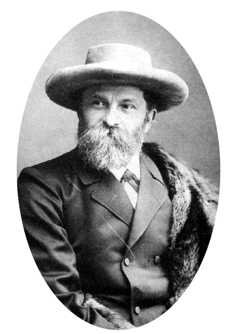 Friedrich Schatz (1841–1920), German gynaecologist